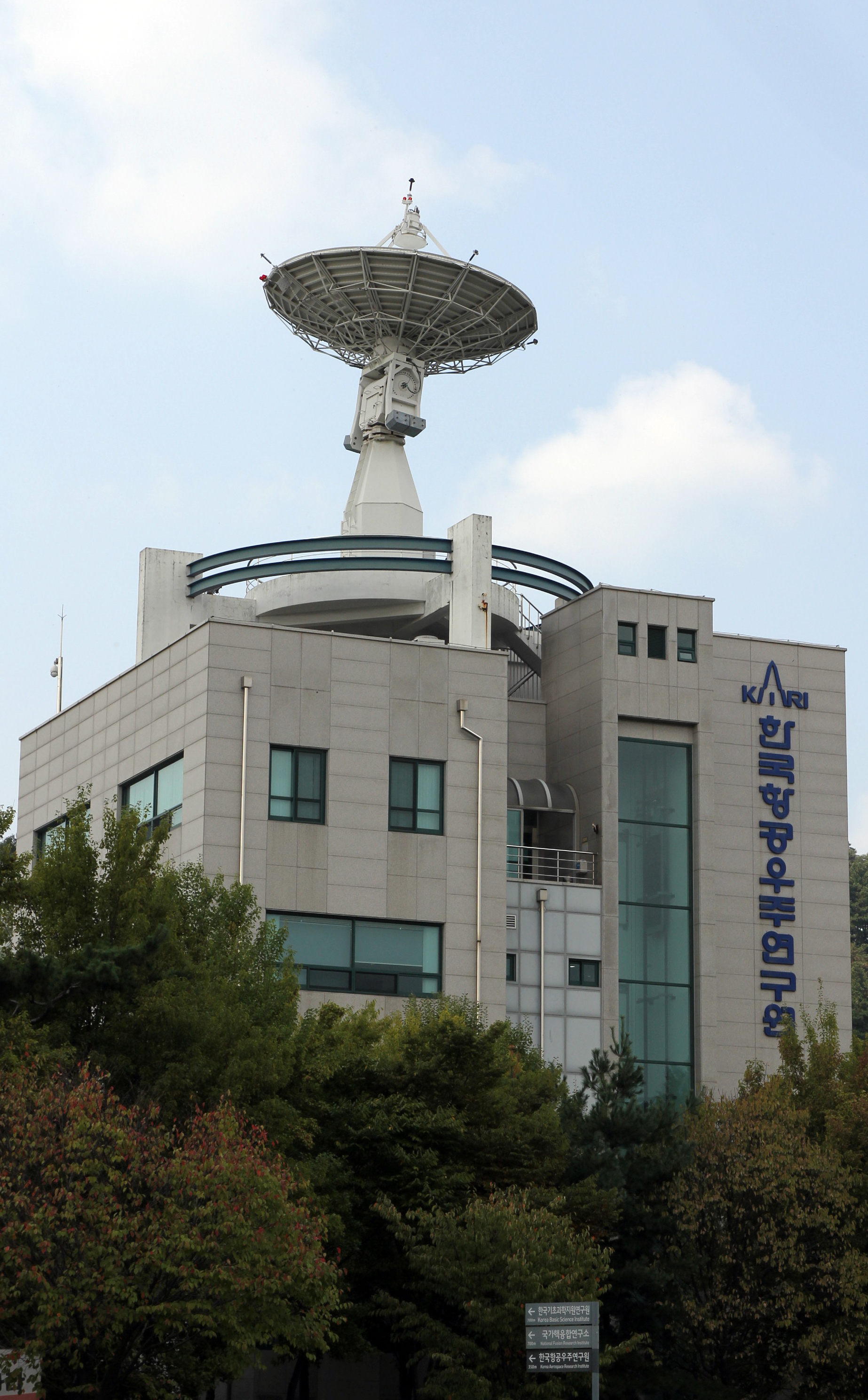 Image of Korea Aerospace Research Institute taken from across the street.